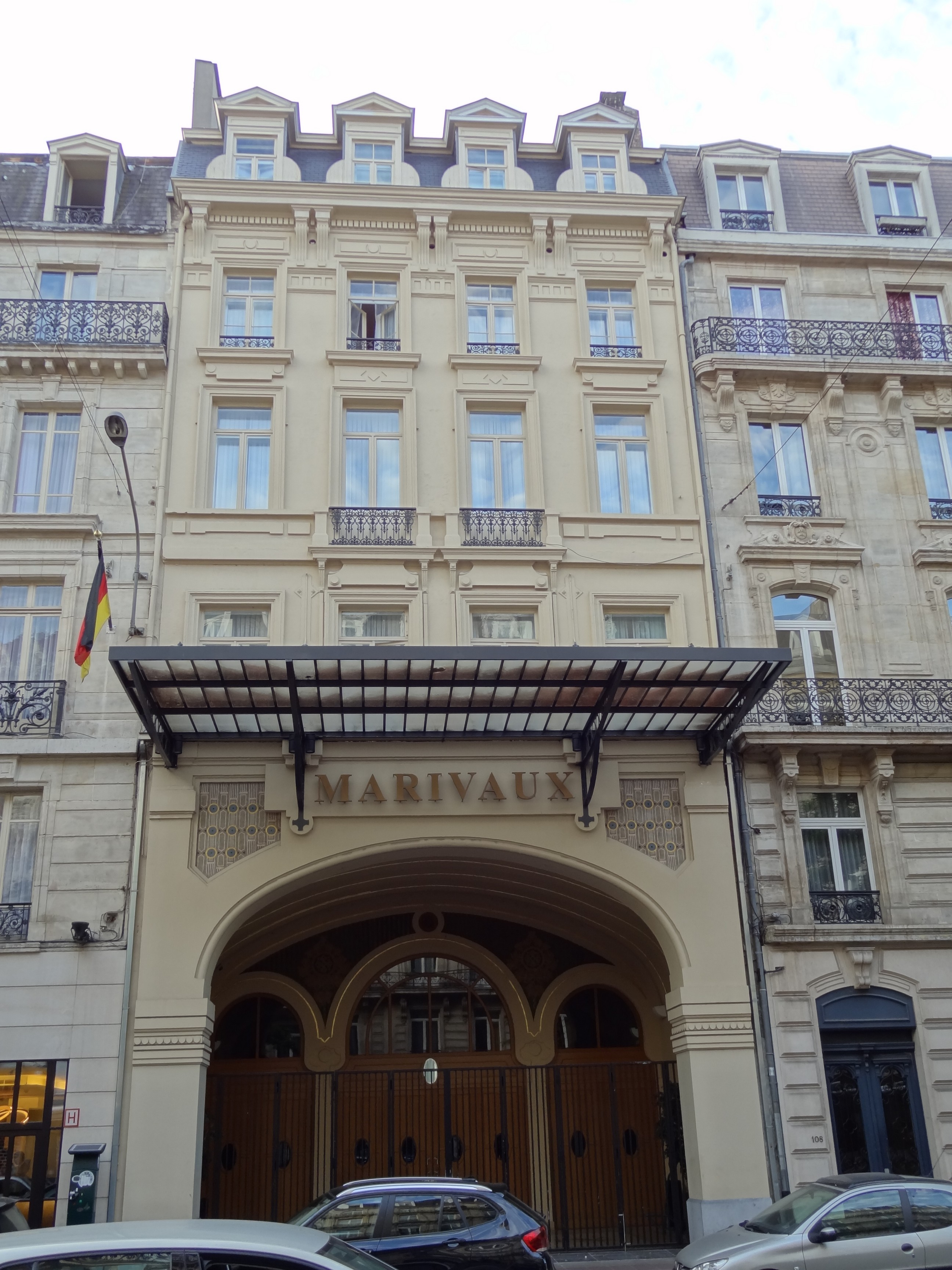 Adolphe Maxlaan 104, Brussels - former cinema Marivaux